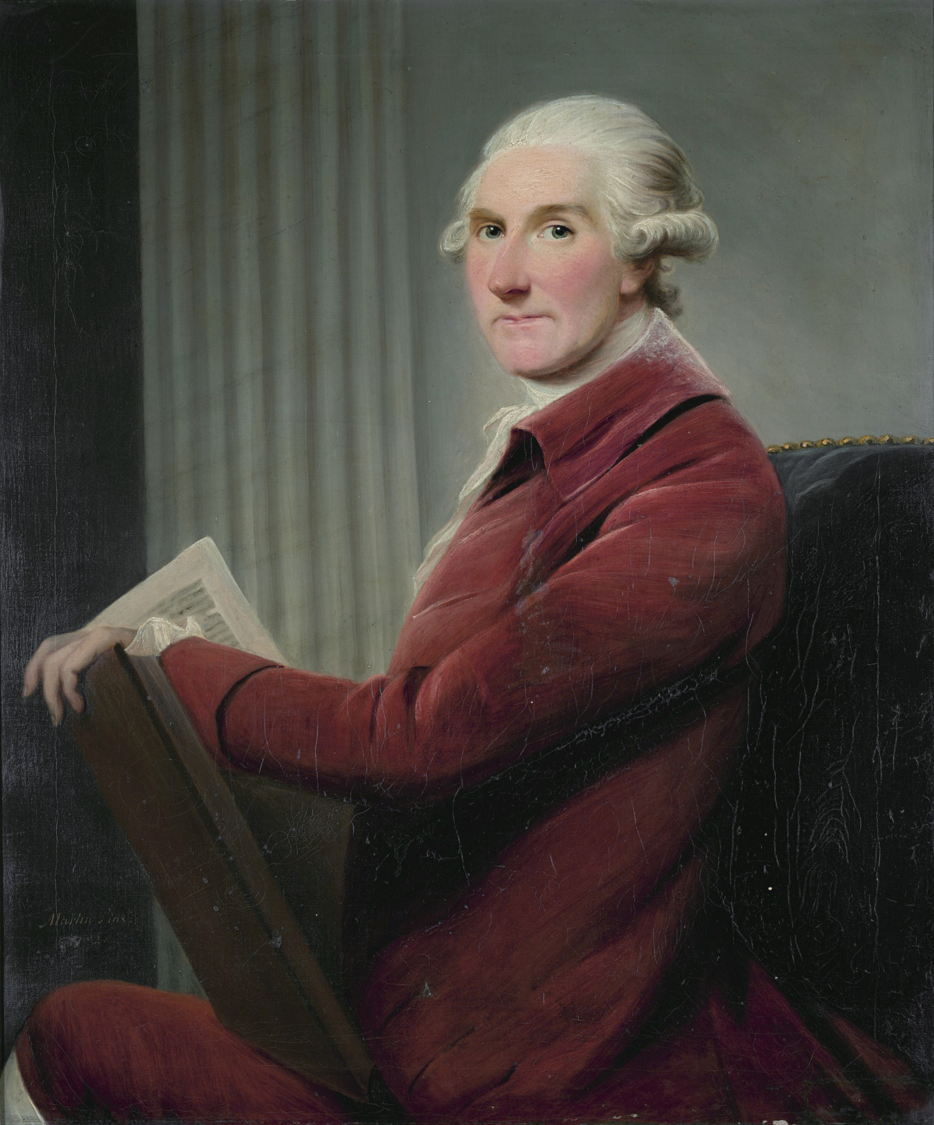 David Leslie, 8th Earl of Leven and 5th Earl of Melville (1722-1802) oil on canvas 91.5 x 76.8 cm signed b.l.: Martin Pinxt: / 1782.